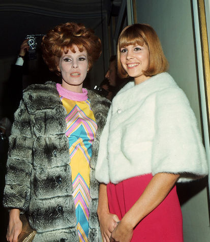 The Italian singers Ornella Vanoni and Marisa Sannia in the backstage of the 18th Sanremo Music Festival